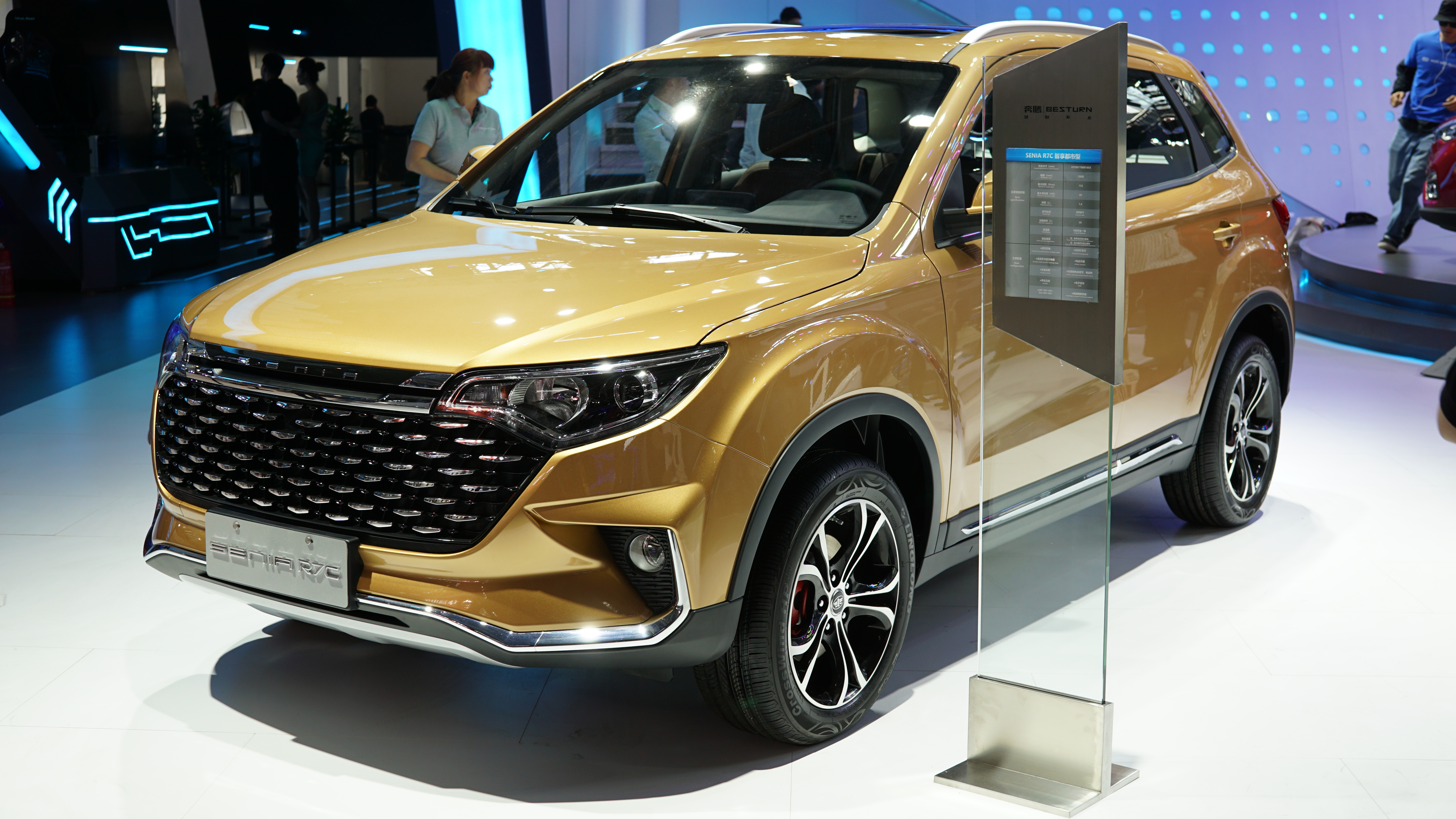 Front view of the Senia R7C, at the Auto China 2018 FAW booth.